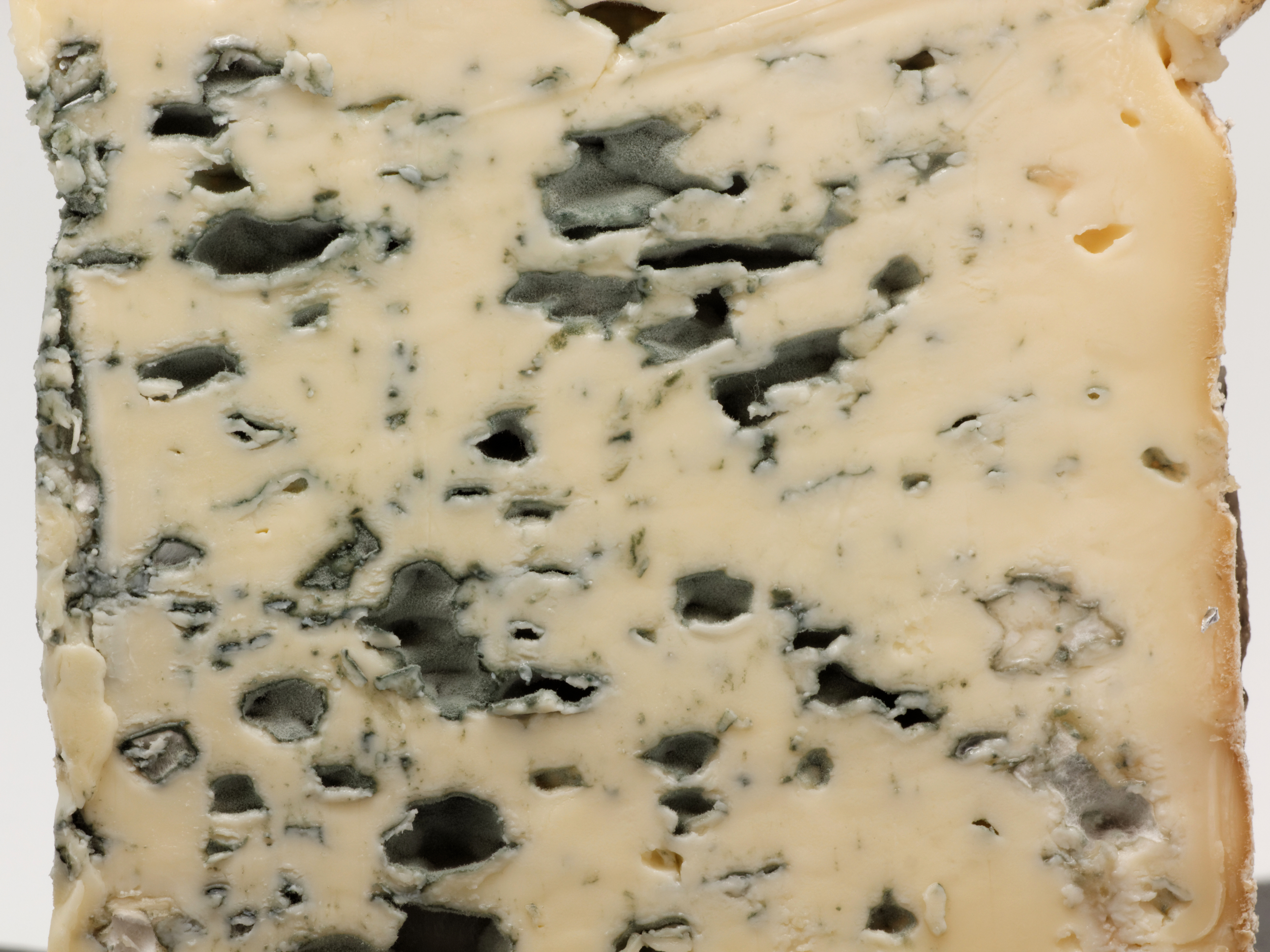 Bleu d'Auvergne